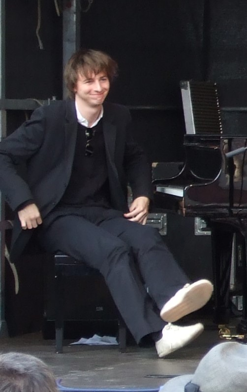 Michael Wollny, jazz piano player, Frankfurt am Main 2009 ("Jazz zum Dritten", with "Emil Mangelsdorff Quartett")